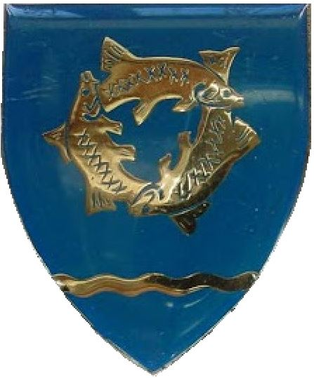 SADF era Potchefstroom Commando emblem